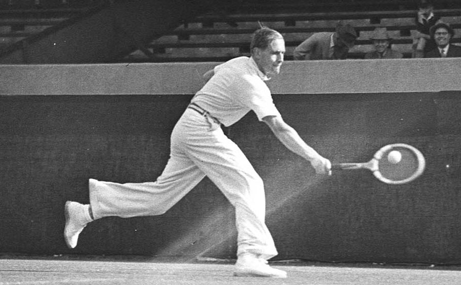 At the end of 1937, Cramm, Henkel, Budge, and Mako all sailed Down Under for the Australian Championships. Cramm (above and below) practices his elegant game.